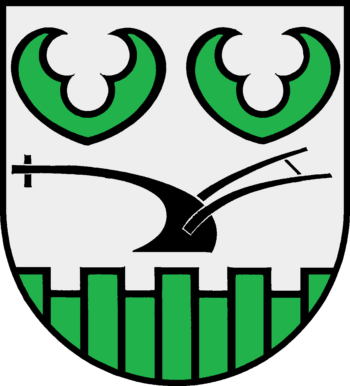 Coat of arms of the municipality Belau in Schleswig-Holstein, Germany.